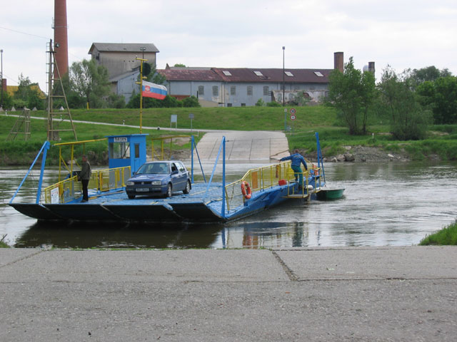 International border between Austria and Slovakia - ferry over the River Morava. Angern an der March, Lower Austria.